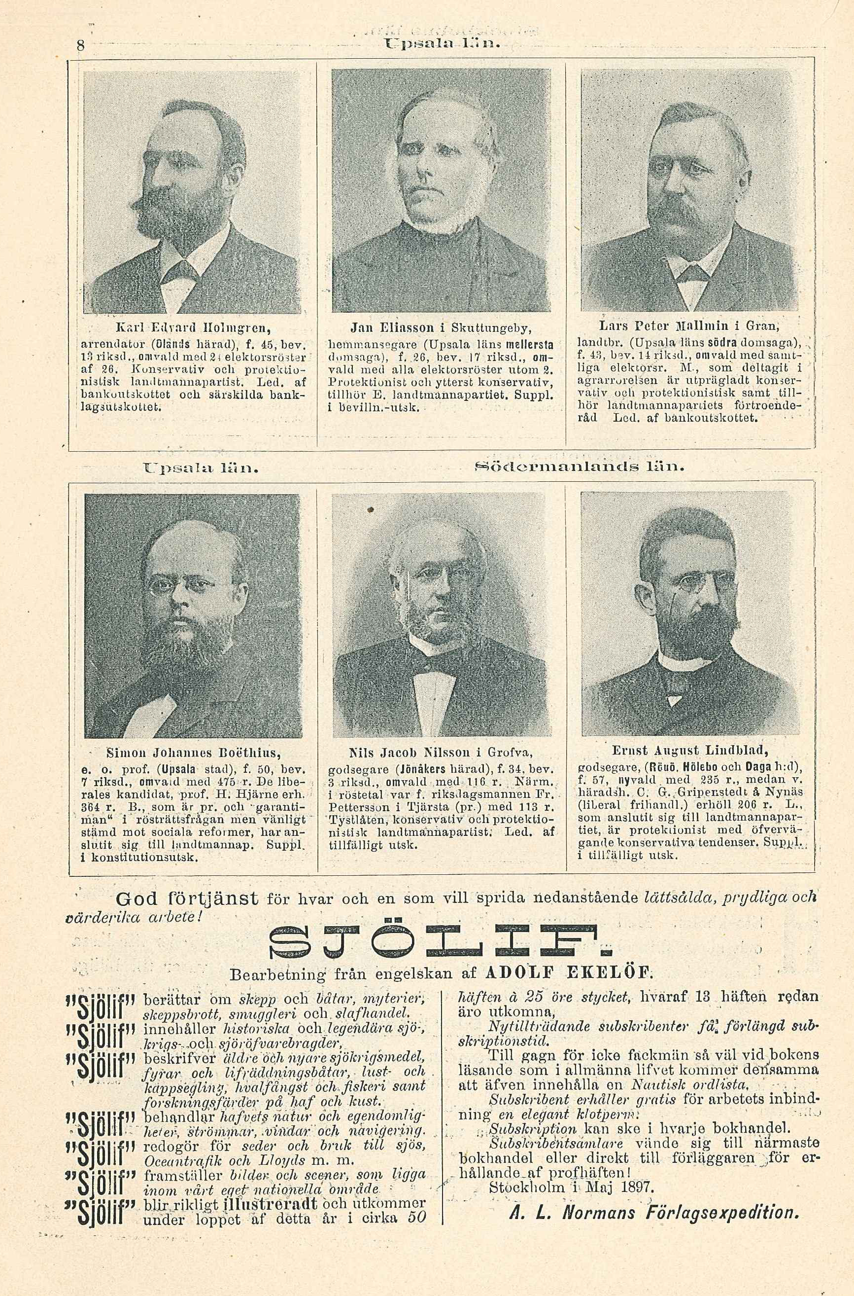 Page 8 of an album featuring portraits of all the members of the second chamber of the Swedish parliament (Sveriges riksdag) elected in 1897. This page featuring parts of the members representing the counties of Uppsala and Södermanland.